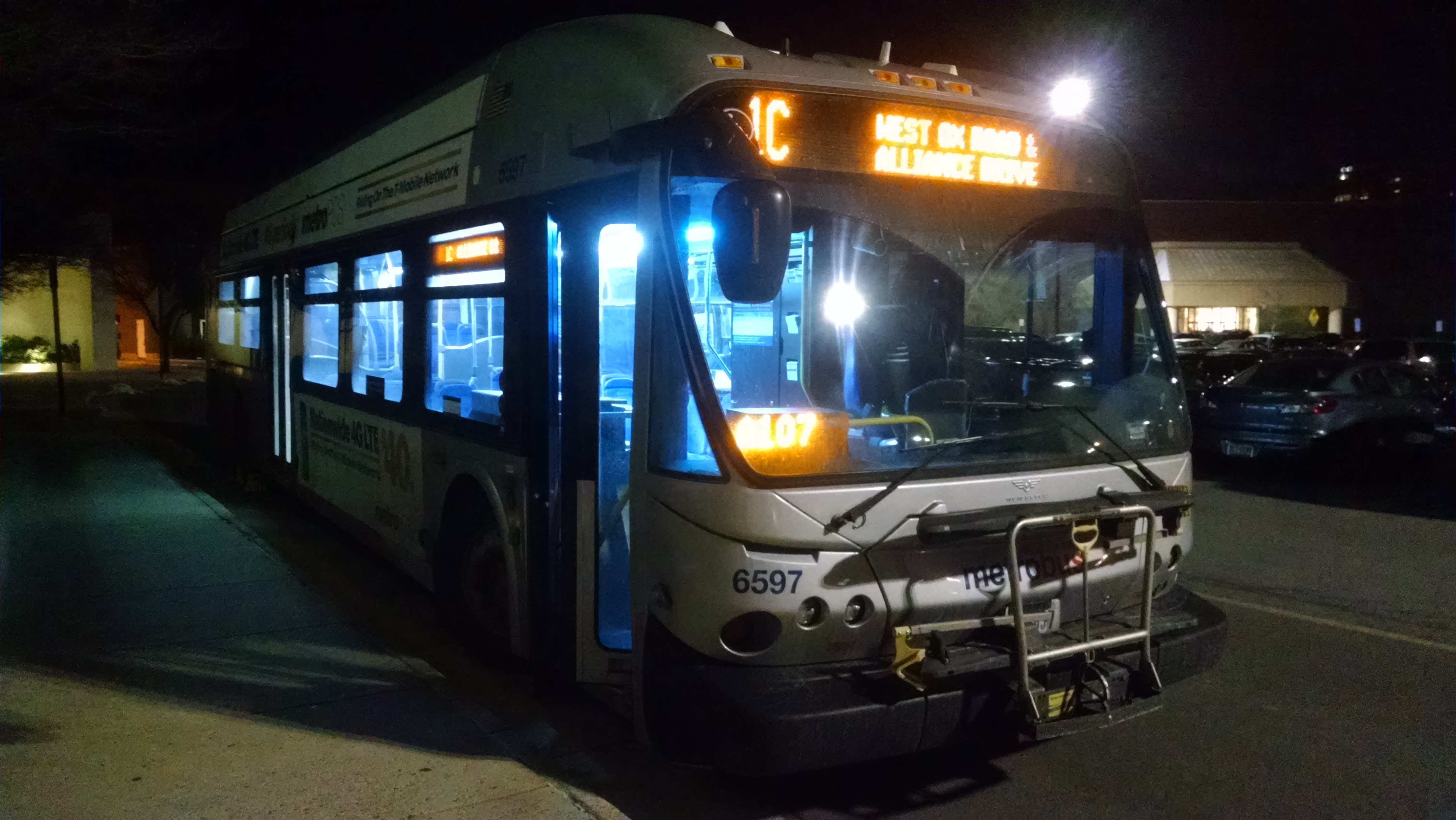 A WMATA New Flyer DE42LFA is on the 1C at Fair Oaks Mall. Division: West Ox (A)